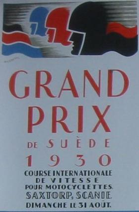 Poster Saxtorp Grand Prix